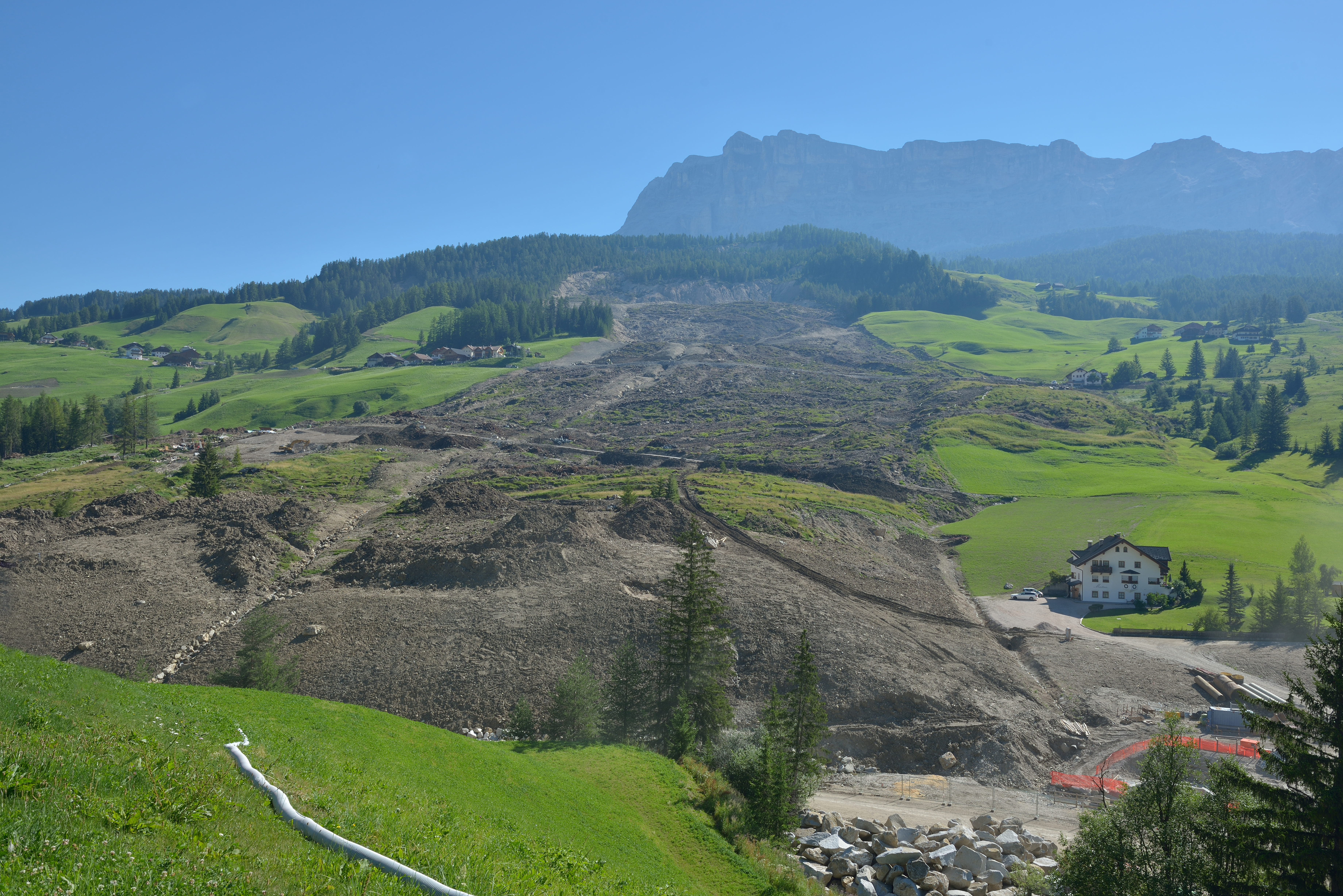 Landslide of December 14, 2012 in Badia South Tyrol eight months after